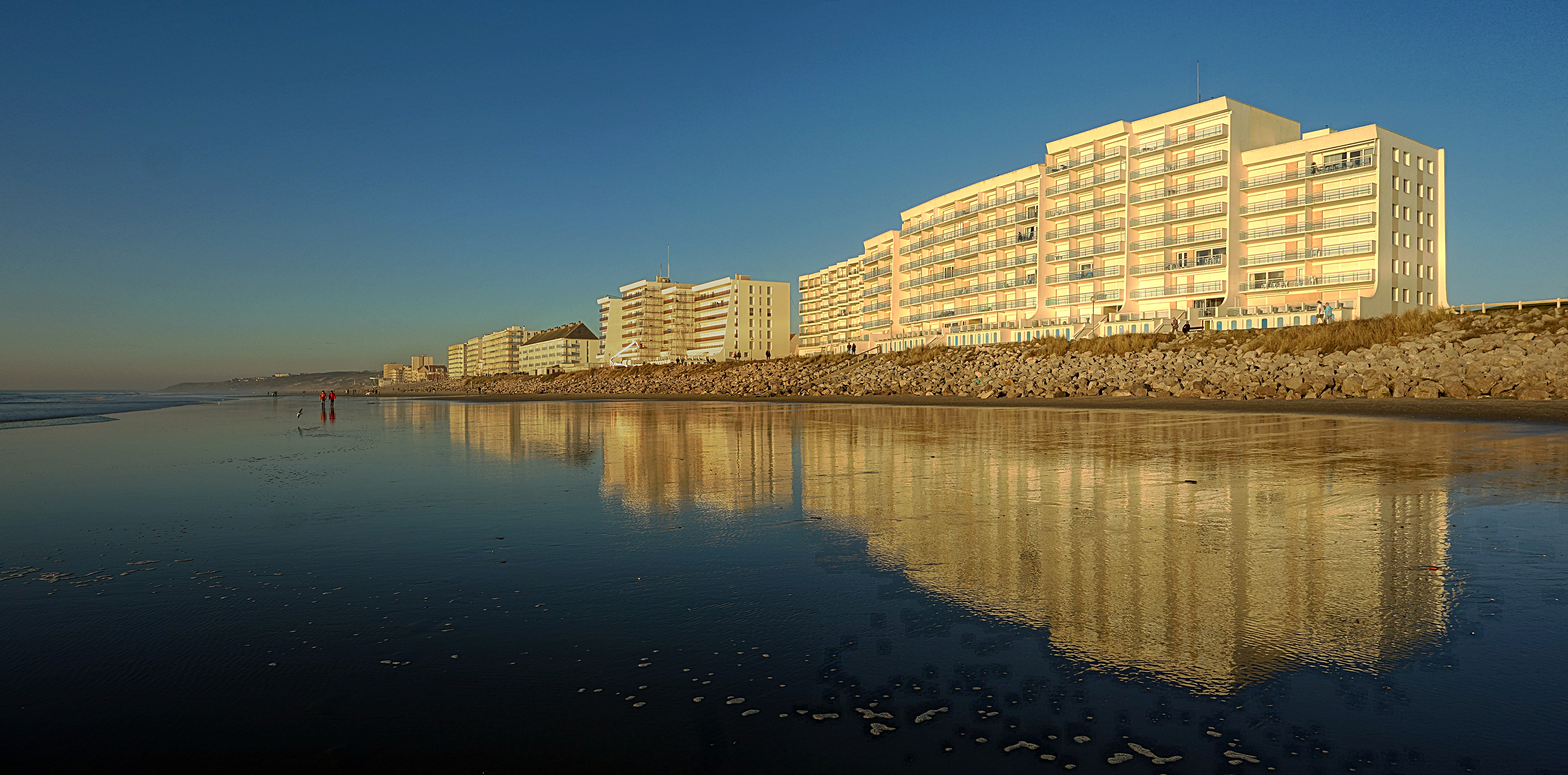 Hardelot Plage sea front